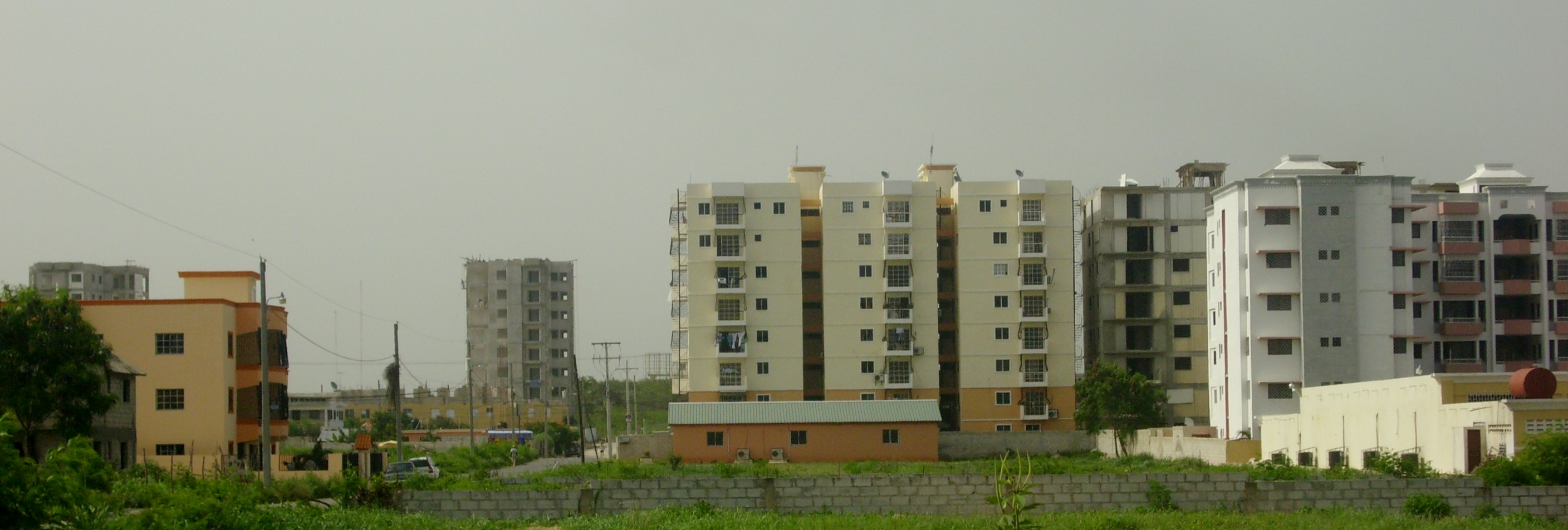 Romana del Oeste